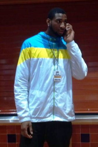 Andre Drummond at Mohegan Sun Arena, March 17, 2012